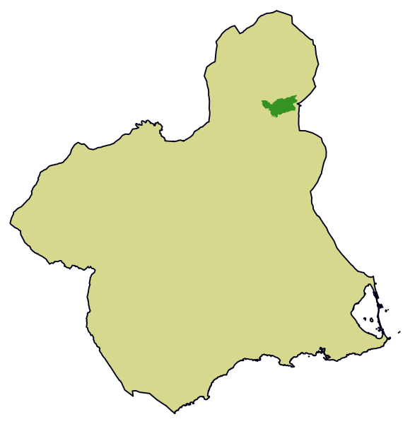 Location map of the Regional Park of the Sierra del Carche in Murcia.